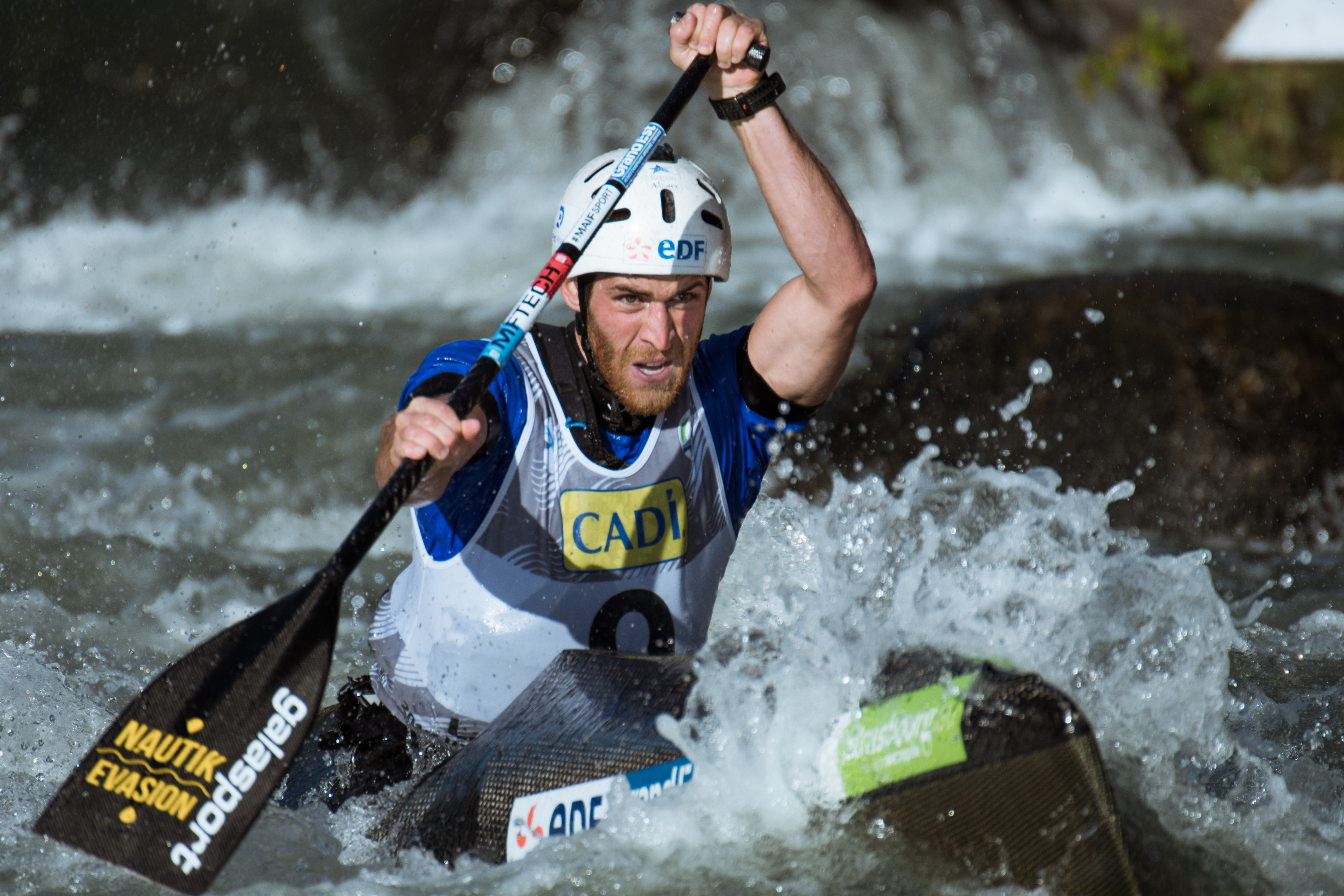 Quentin Dazeur during the 2019 Canoe Wildwater World Championships in La Seu d'Urgell, Spain.